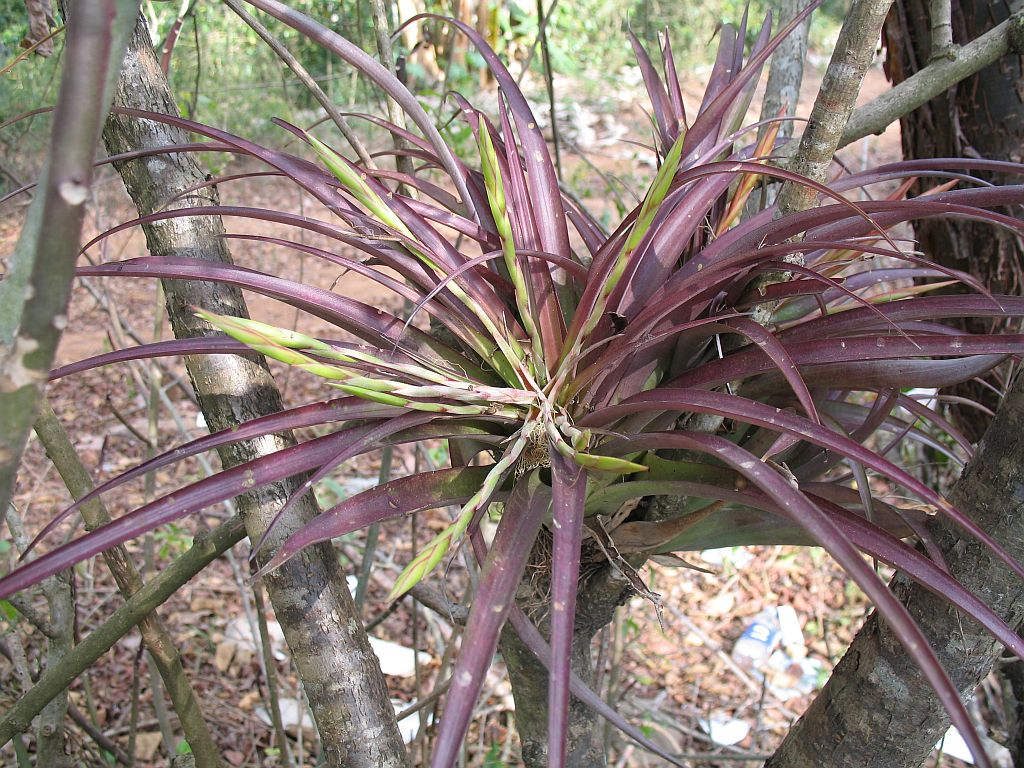 Tillandsia flabellata in habitat in southern Guatemala, Dept. Santa Rosa (?); near Las Marias; 1171m.